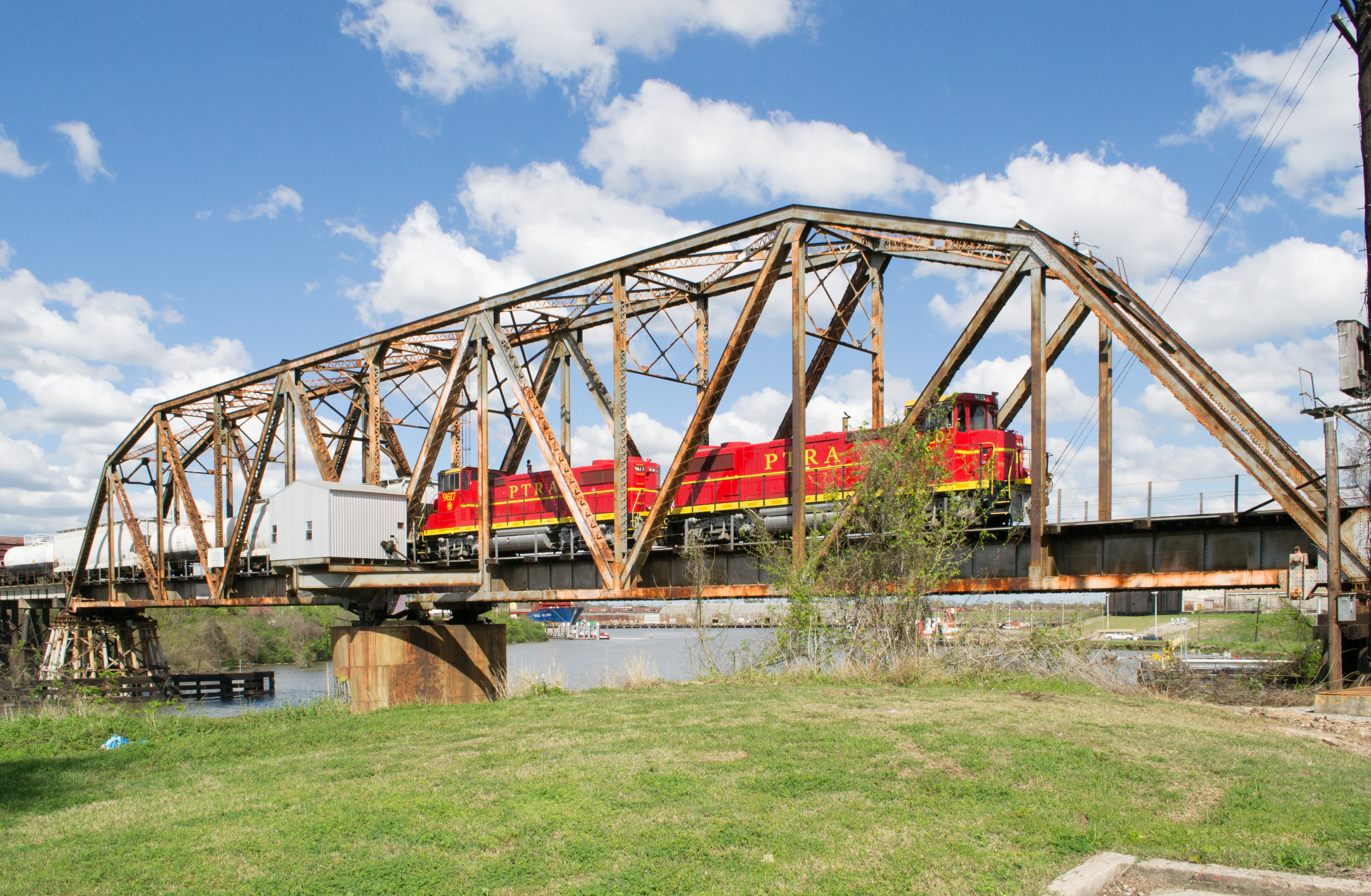 A Port Terminal Railroad Association (PTRA) train crossing the ex-HB&T Railway swing bridge over Buffalo Bayou near Hedrick Street, in Houston, Texas. This bridge is one of two surviving ex-Houston Belt & Terminal Railway swing bridges over Buffalo Bayou in Houston, the other being located upstream (to the west).